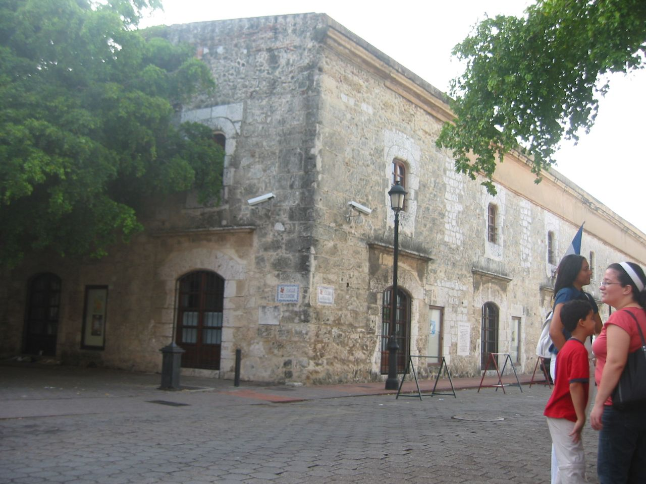 Ciudad Colonial, french ambassy, house of Hernán Cortés, Dominican Republic.